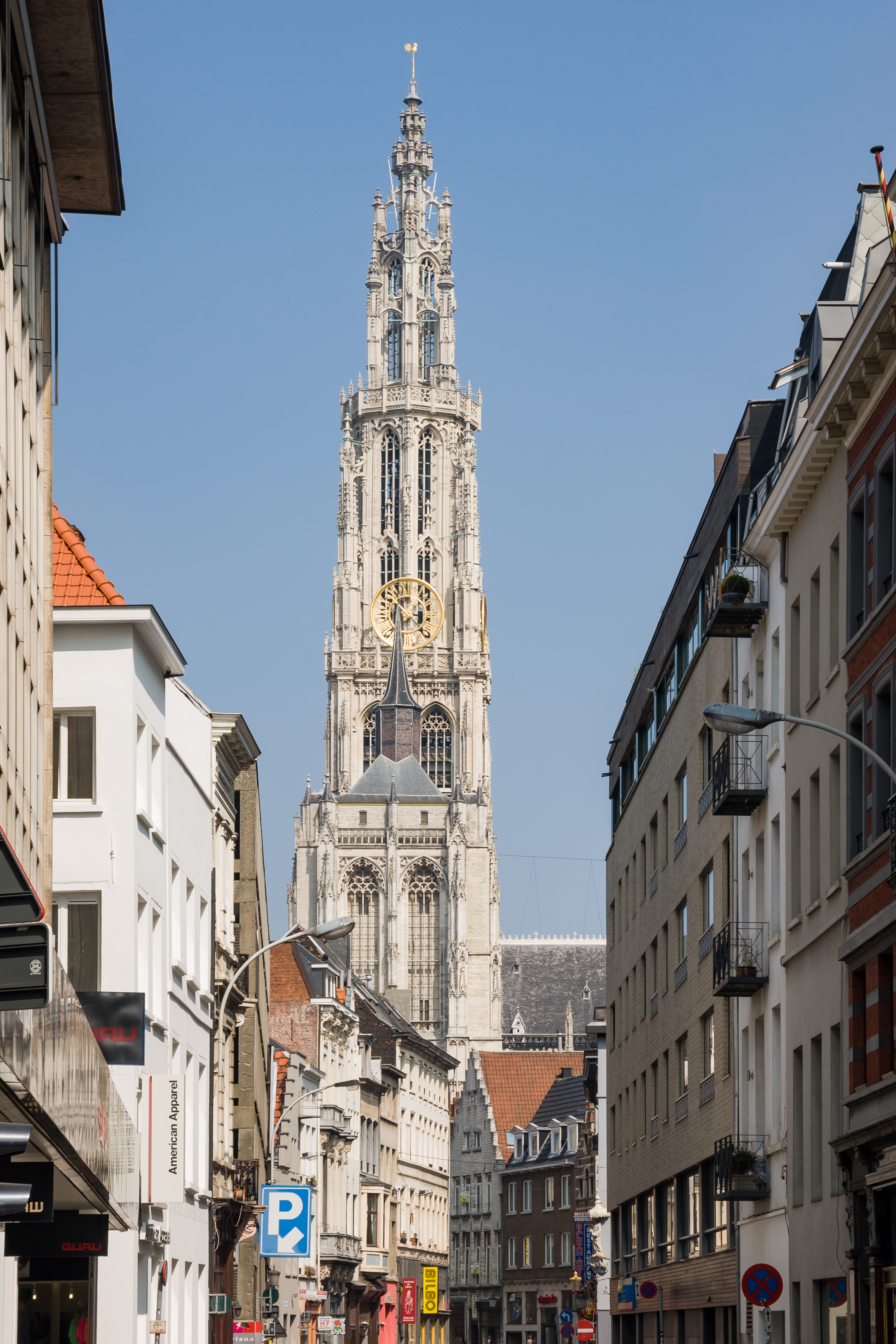 Antwerp, Belgium: Tower of Onze-Lieve-Vrouwekathedraal